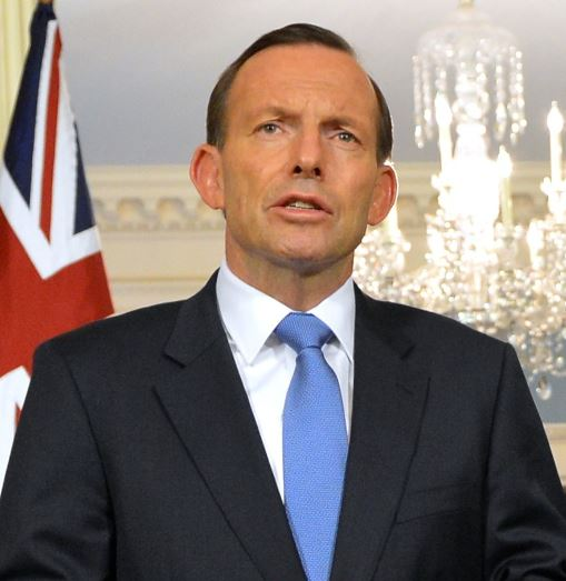 Image of Australian Prime Minister Tony Abbott in June 2014. Cropped from image taken with US Secretary of State John Kerry.